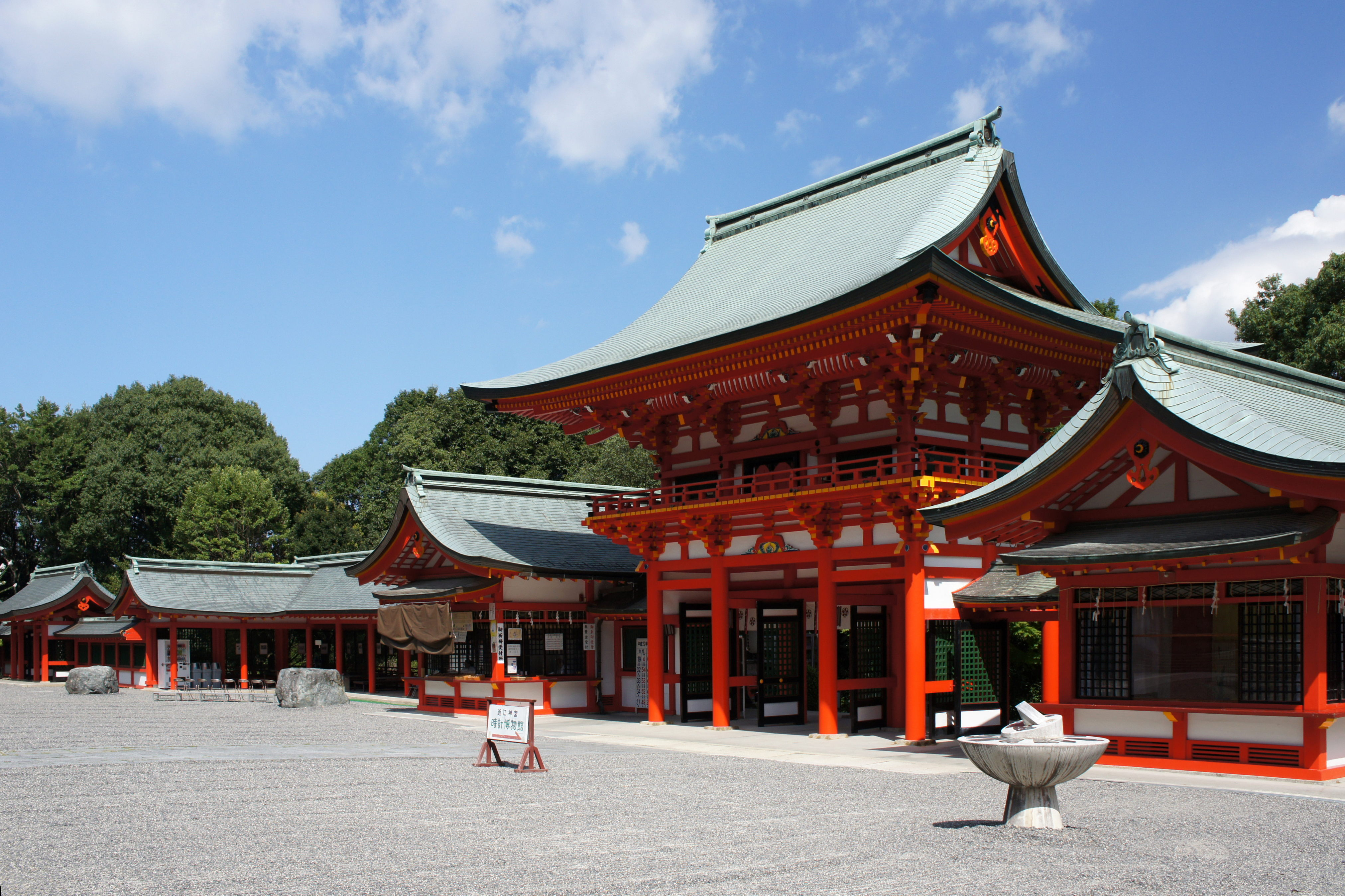 Oumi-jingu in Otsu, Shiga prefecture, Japan.